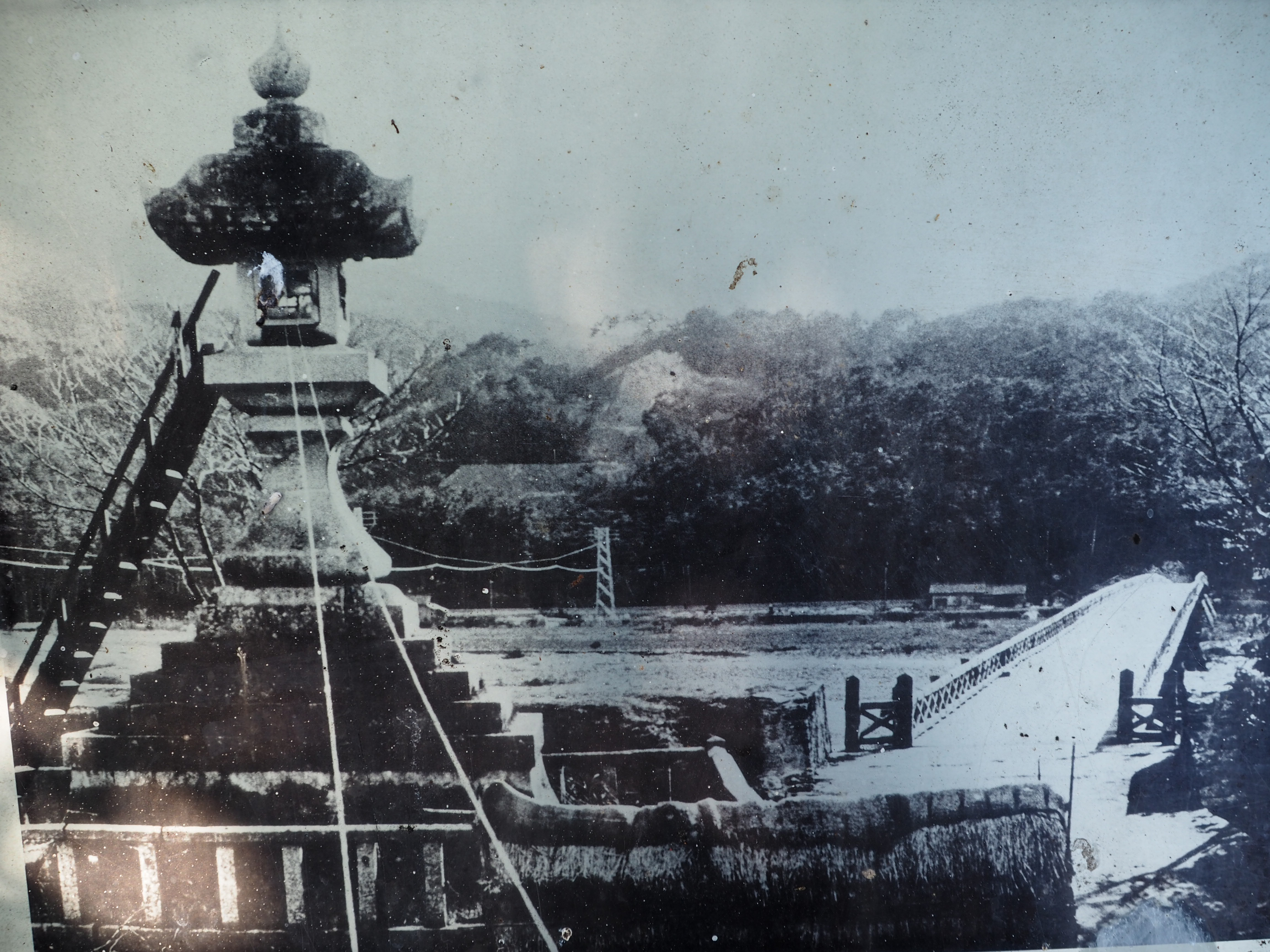 Yokota watashi Jōyatō (A Stone lantern at Yokota watashi of Tōkaidō) , Koka, Shiga, Japan built in 1822. Wooden bridge was built between Izumi and Mikumo in 1891 and moved to downstream in 1929.